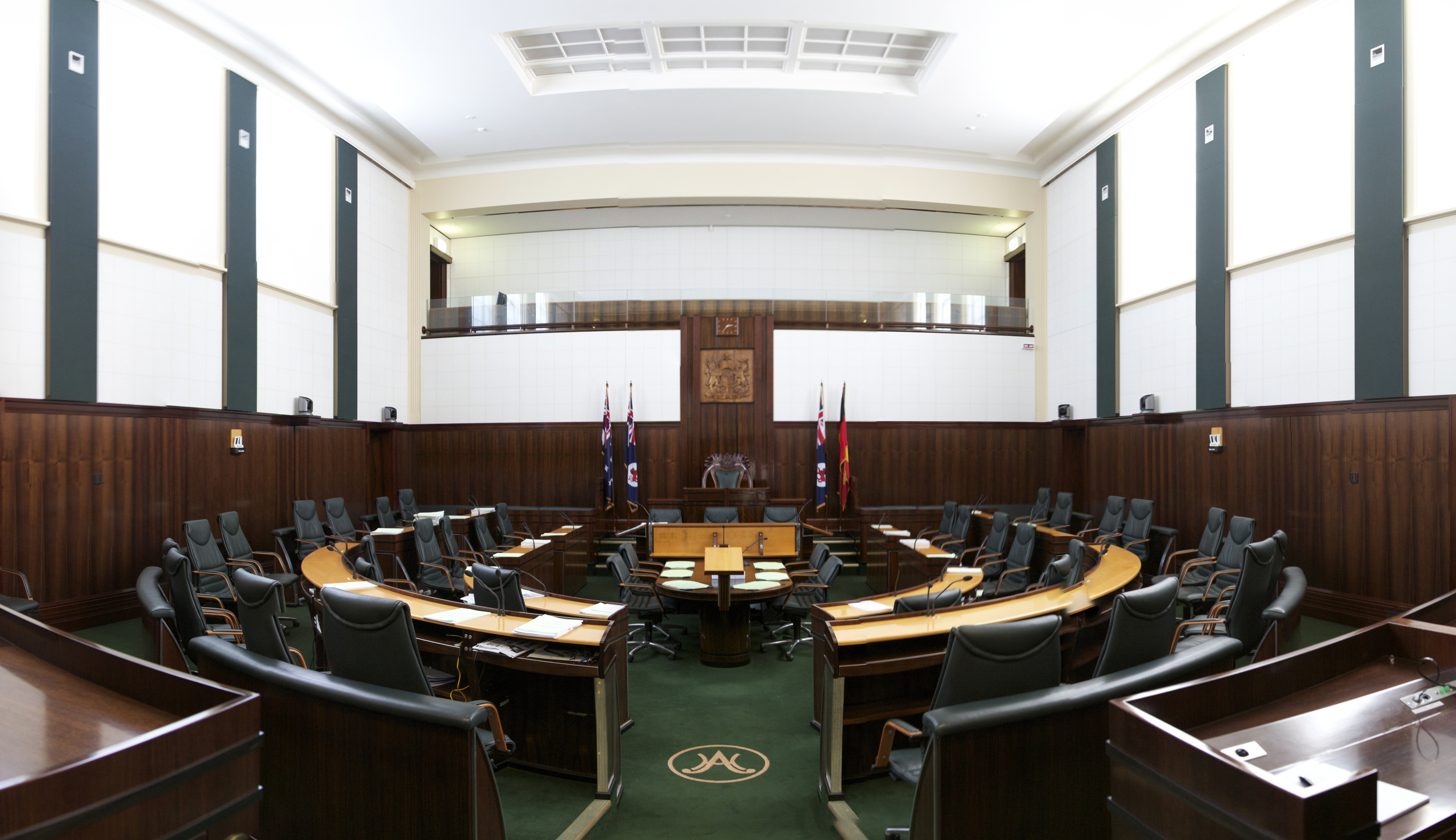 The House of Assembly is the lower house of Tasmania's bicameral parliamentary system. The House of Assembly was refurbished in 2009 to restore the 1930s Art Deco style.